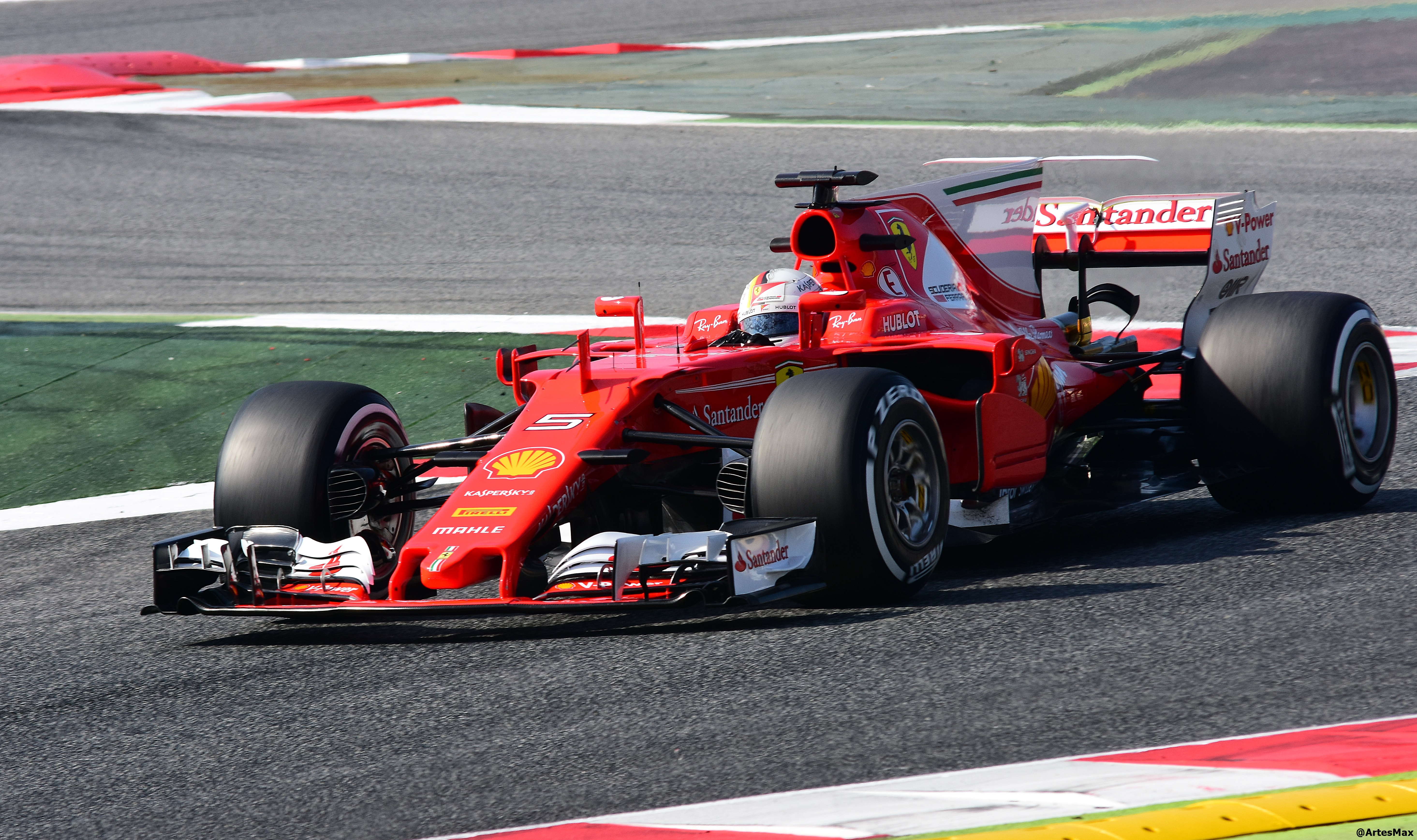 Sebastian Vettel testing the Ferrari SF70H at Barcelona.